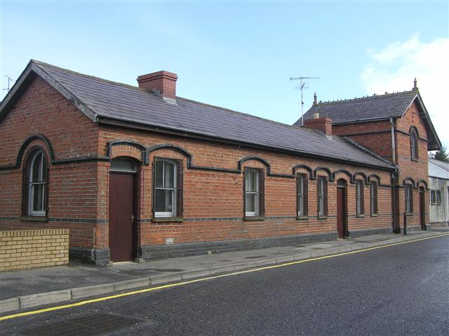 Castlederg Railway Station It has been many years since the trains stopped here.